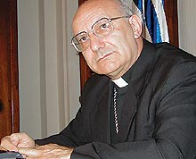 Archbishop Nicolas Cotugno (Uruguay)